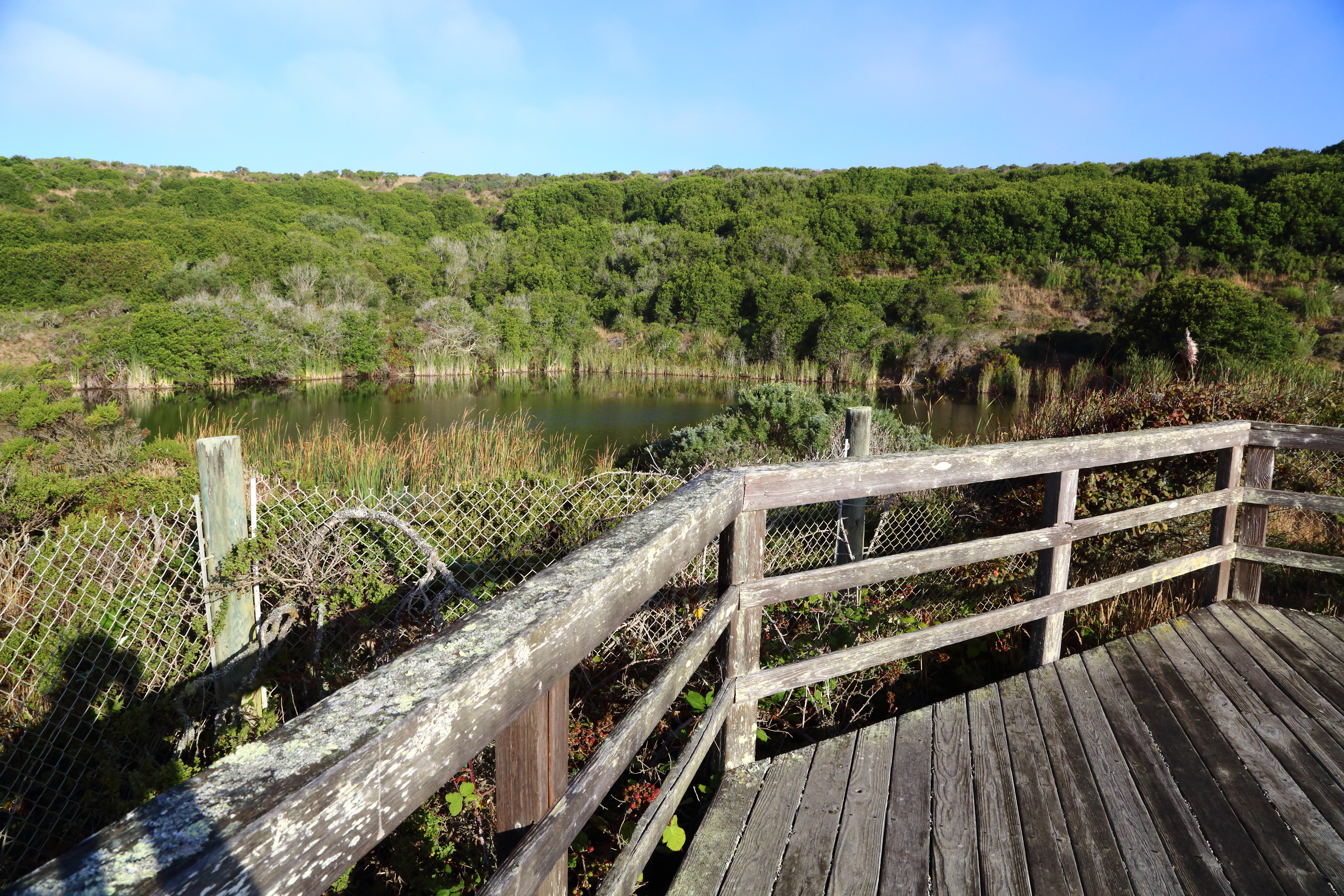 Fifty years ago this was the site of a fight by local citizens and scientists to stop a nuclear power plant. Some people credit this effort with starting the environmental activism movement in the US. The results of this fight shape our world to this day. The platform and pond are in the middle of the hole dug for the foundations of the plant. I particularly like the description of Rose Gaffney as "a wonderful friend, but a wretched enemy".